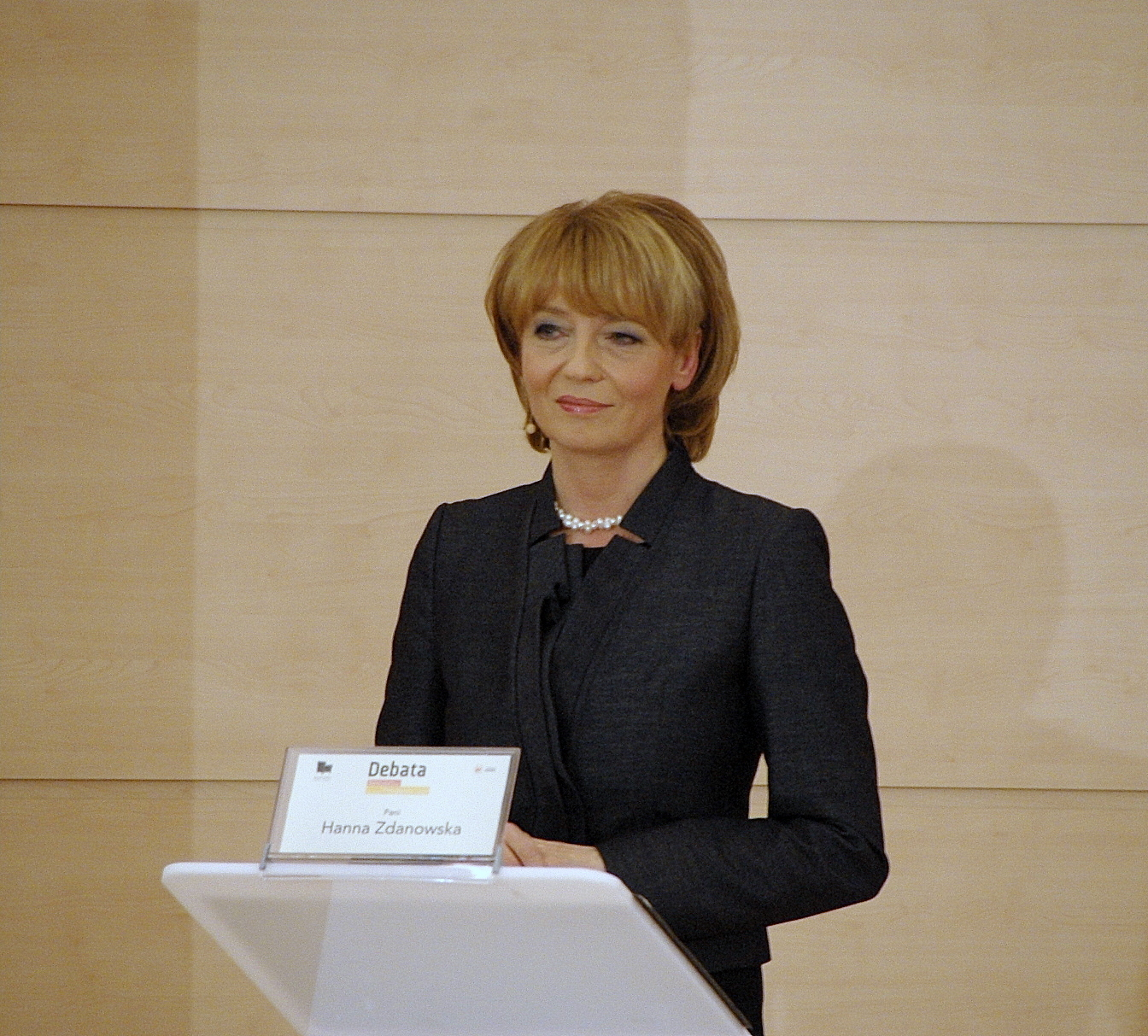 Hanna Zdanowska, Mayor of Łódź